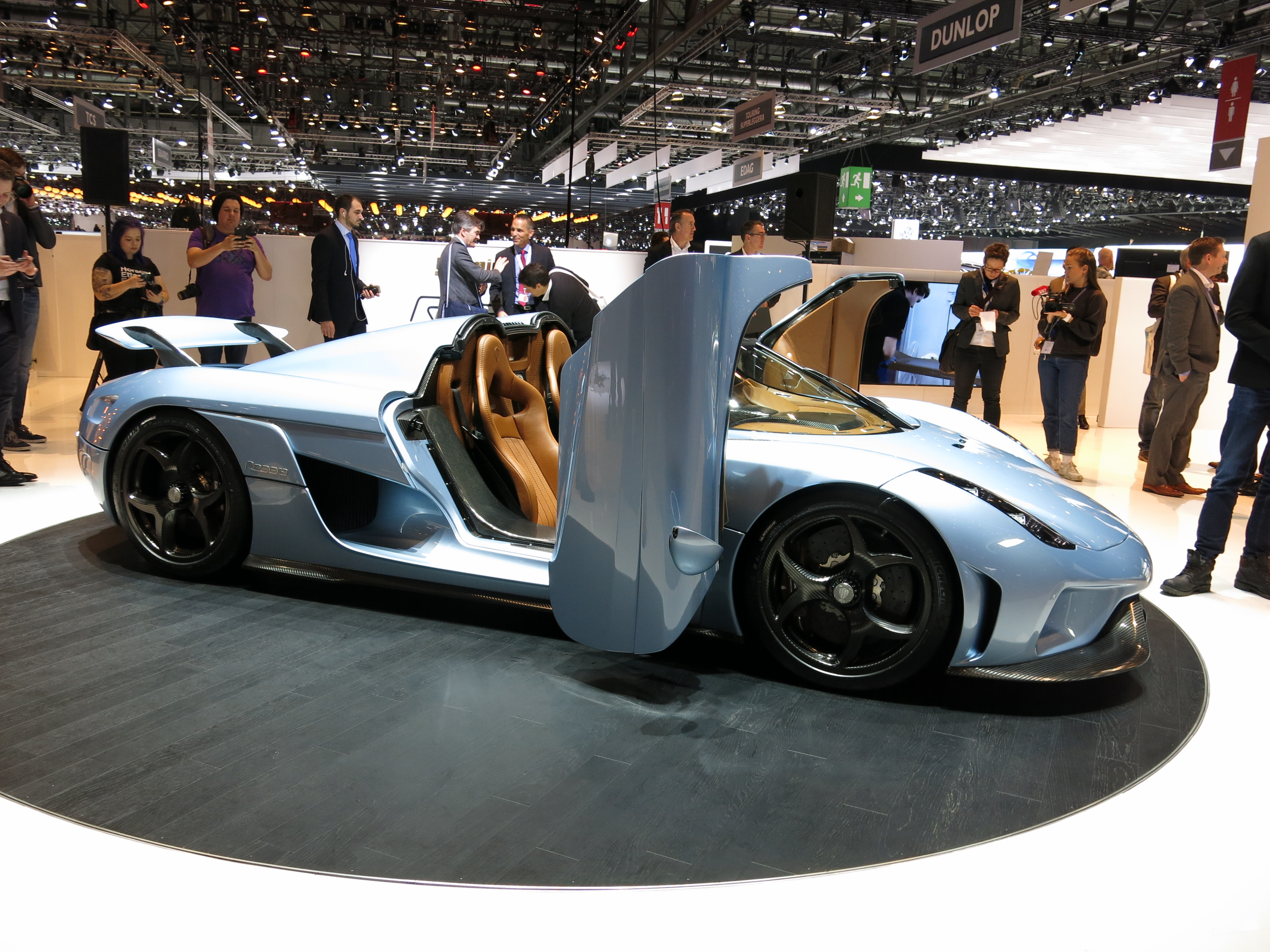 Geneva Motor Show 2015 (photo taken on the first press day)